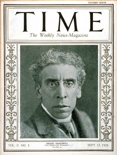 TIME Magazine Cover Featuring Israel Zangwill (17 Sep 1923)